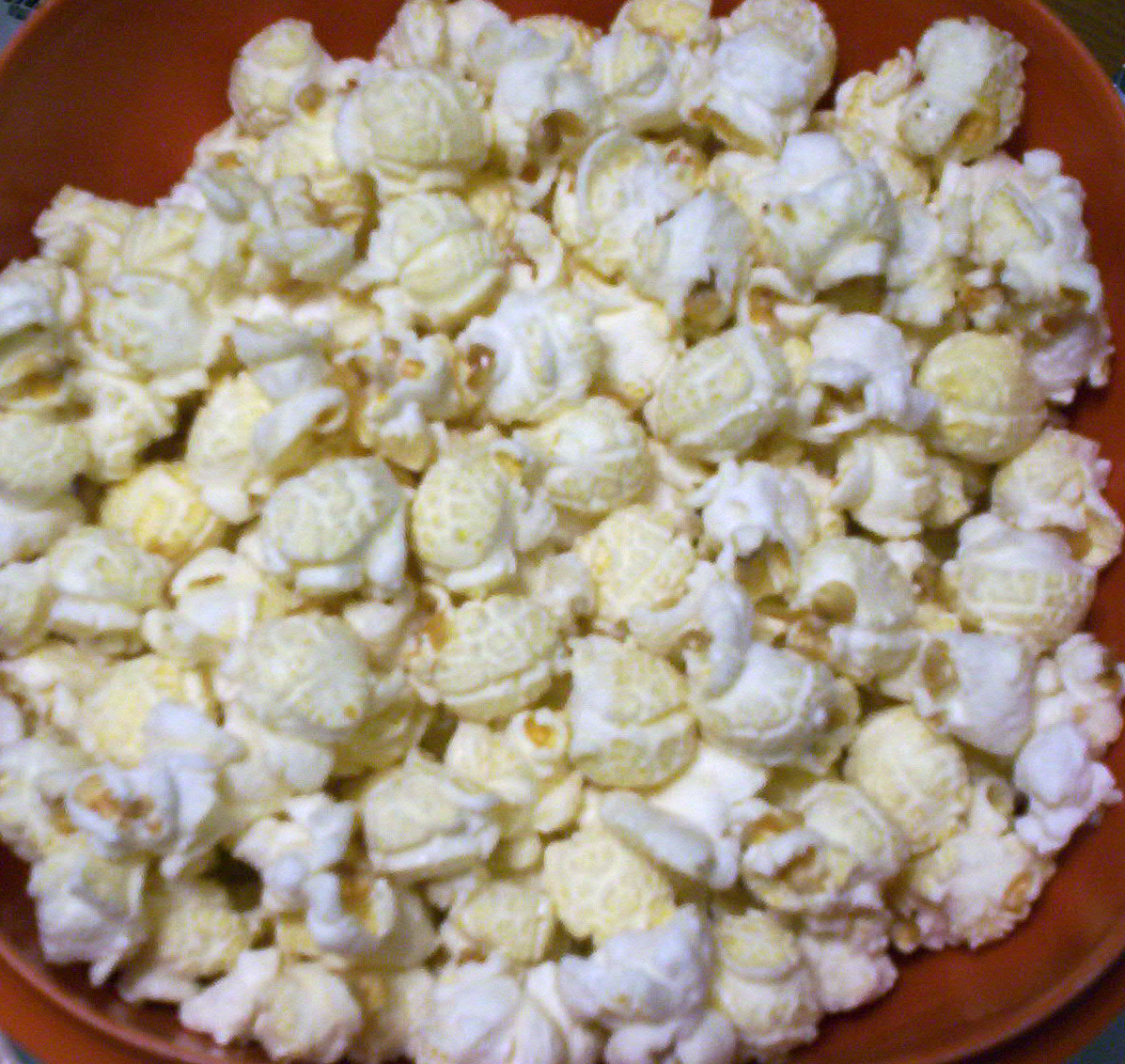 Kettle corn in an orange bowl. Iffy quality from an iffy camera, but best I could do.